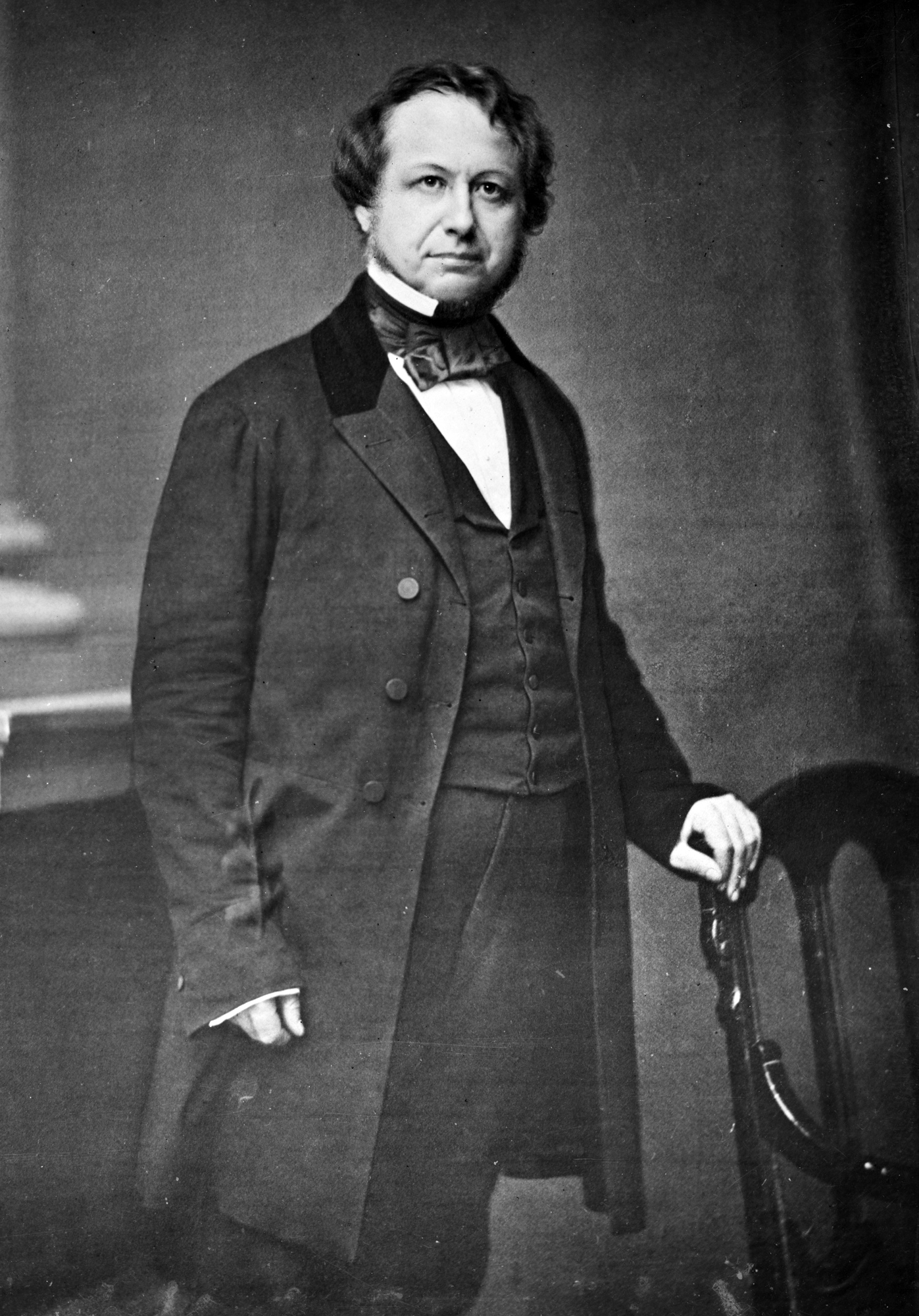 TITLE: Hon. Wm. Bigler of PA CALL NUMBER: LC-BH82- 5112 C [P&P] REPRODUCTION NUMBER: LC-DIG-cwpbh-02528 (b&w copy scan) No known restrictions on publication. MEDIUM: 1 negative : glass, wet collodion. CREATED/PUBLISHED: [between 1855 and 1865] NOTES Title from unverified information on negative sleeve. Forms part of Brady-Handy Photograph Collection (Library of Congress). FORMAT: Portrait photographs 1850-1870. Glass negatives 1850-1870. REPOSITORY: Library of Congress Prints and Photographs Division Washington, D.C. 20540 USA DIGITAL ID: (b&w scan) cwpbh 02528